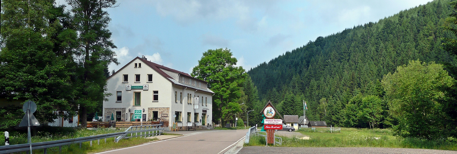 This image shows the restaurant "Teichhaus" in the valley of the Freiberger Mulde near Holzhau.